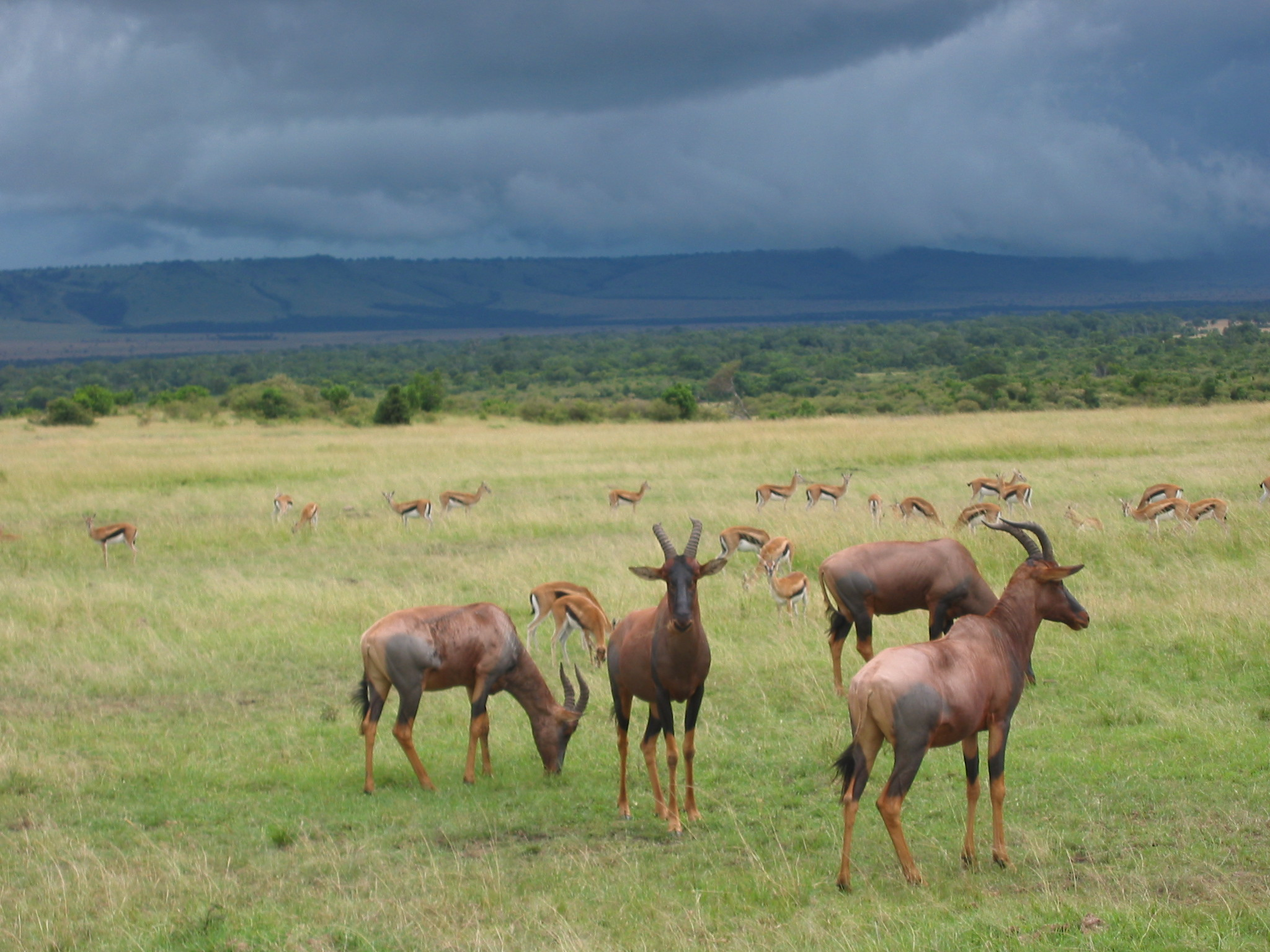 Topi in the Masai Mara National Park, Kenya, note their interesting colours.